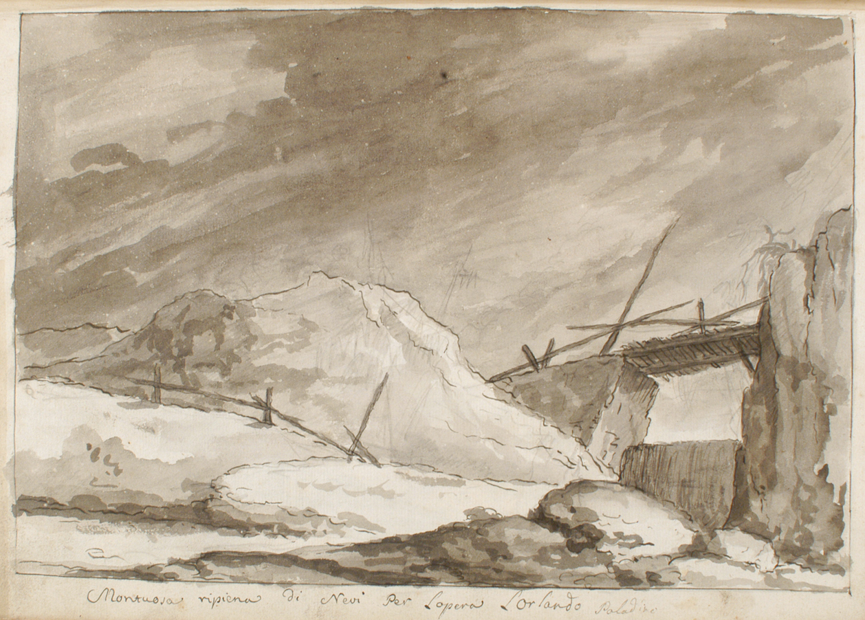 Joseph Haydn - Orlando paladino - illustration from a scetch book by Pietro Travaglia 1782